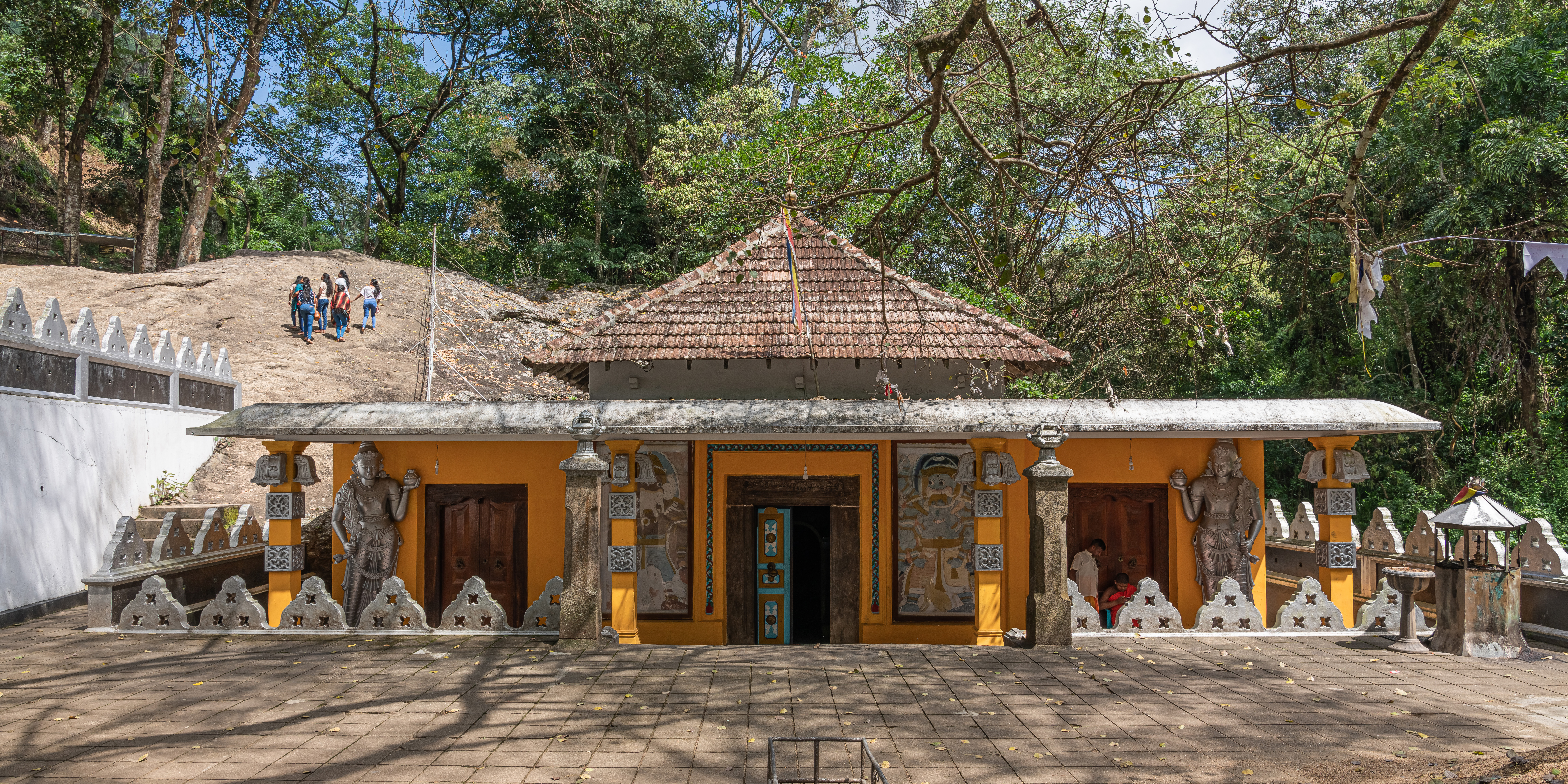 Dhowa rock temple near Ella, Sri Lanka: exterior view